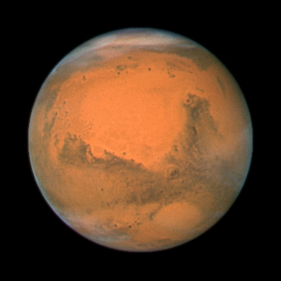 The NASA/ESA Hubble Space Telescope took this close-up of the red planet Mars when it was just 88 million kilometers away. This colour image was assembled from a series of exposures taken within 36 hours of the Mars closest approach with Hubble's Wide Field and Planetary Camera 2. Mars will be closest to Earth on December 18, at 11:45 p.m. Universal Time.